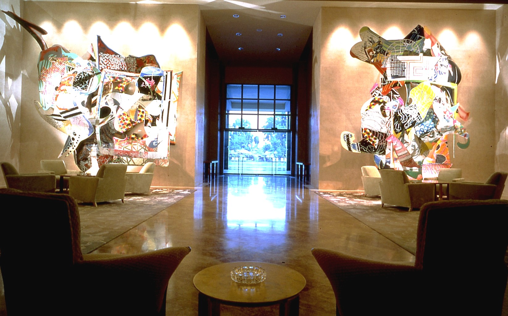 Two wall reliefs from Frank Stella's Moby Dick series of 138 paintings and sculptures – a tribute to Herman Melville's masterpiece novel. They were inspired by the white beluga whales at the New York City Aquarium.